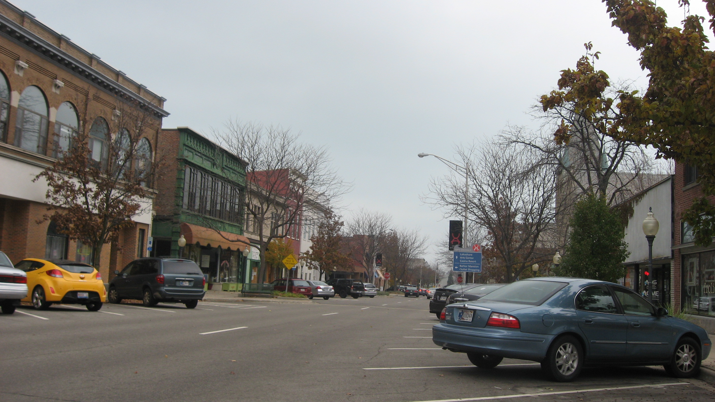 Buildings in the 500 block of Franklin Street in Michigan City, Indiana, United States. This block is part of the Elston Grove Historic District, a historic district that is listed on the National Register of Historic Places.